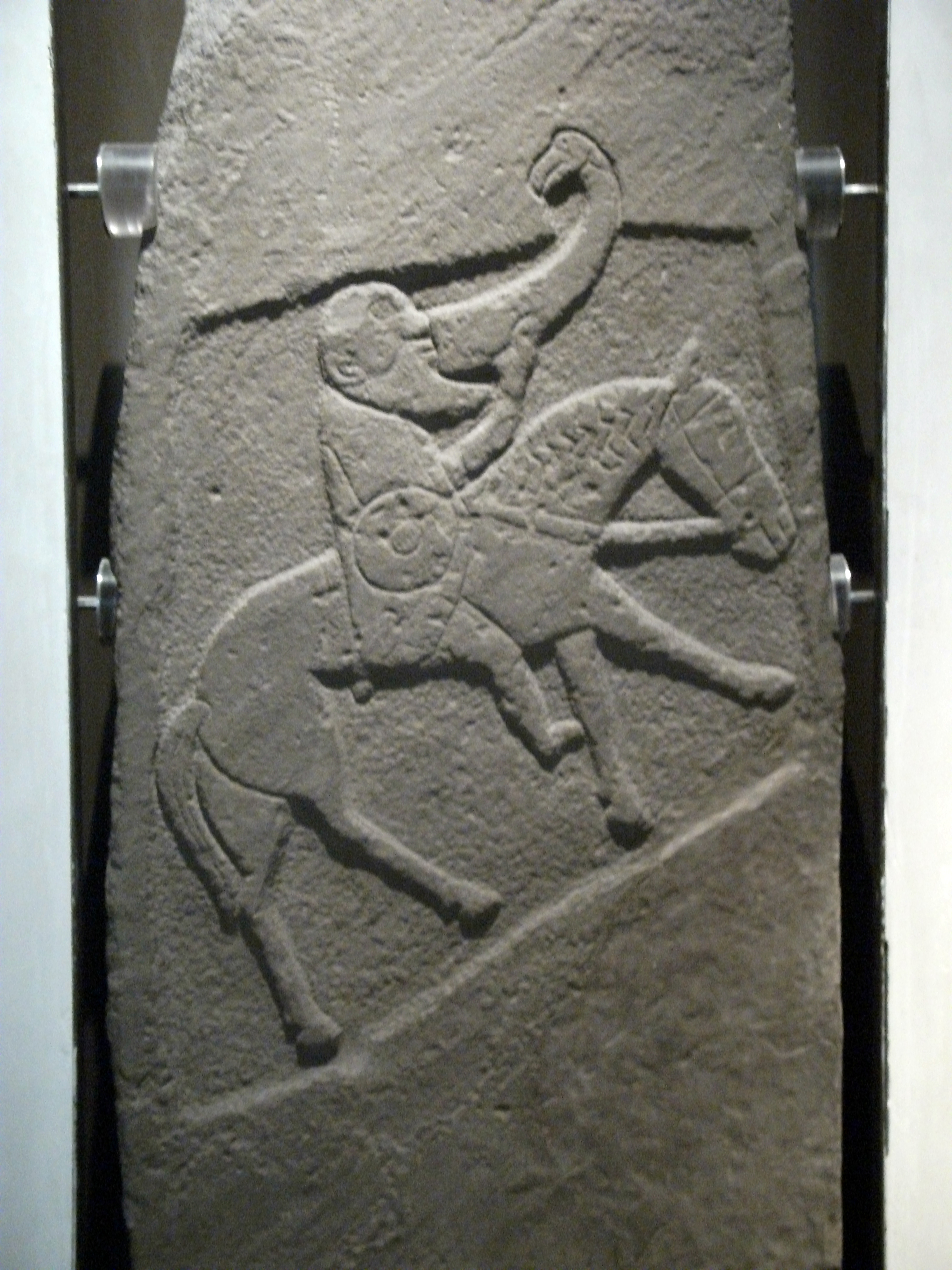 Pictish Stone, Bullion, Invergowrie, Angus. Museum of Scotland